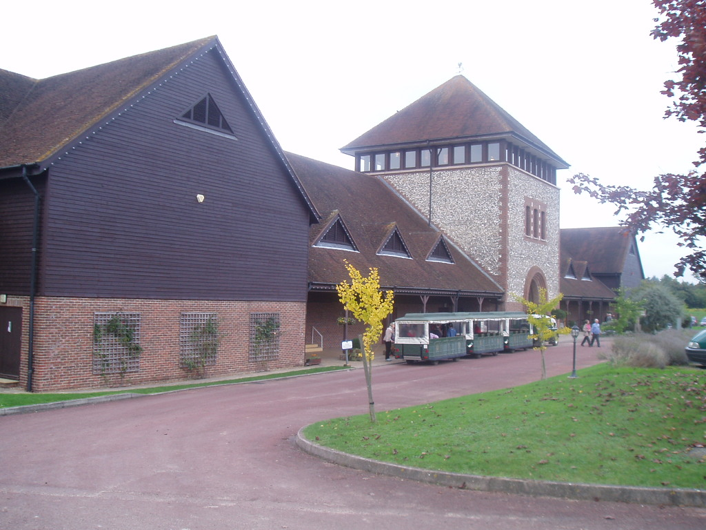 Created by Ojw while surveying for OpenStreetMap